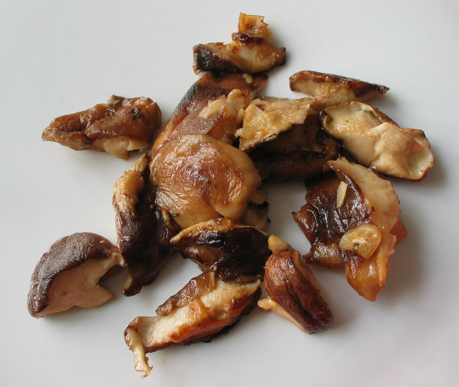 Shiitake mushrooms cooked with garlic.